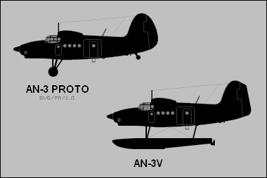 Side silhouette views of the prototype Antonov An-3 and An-3V floatplane.